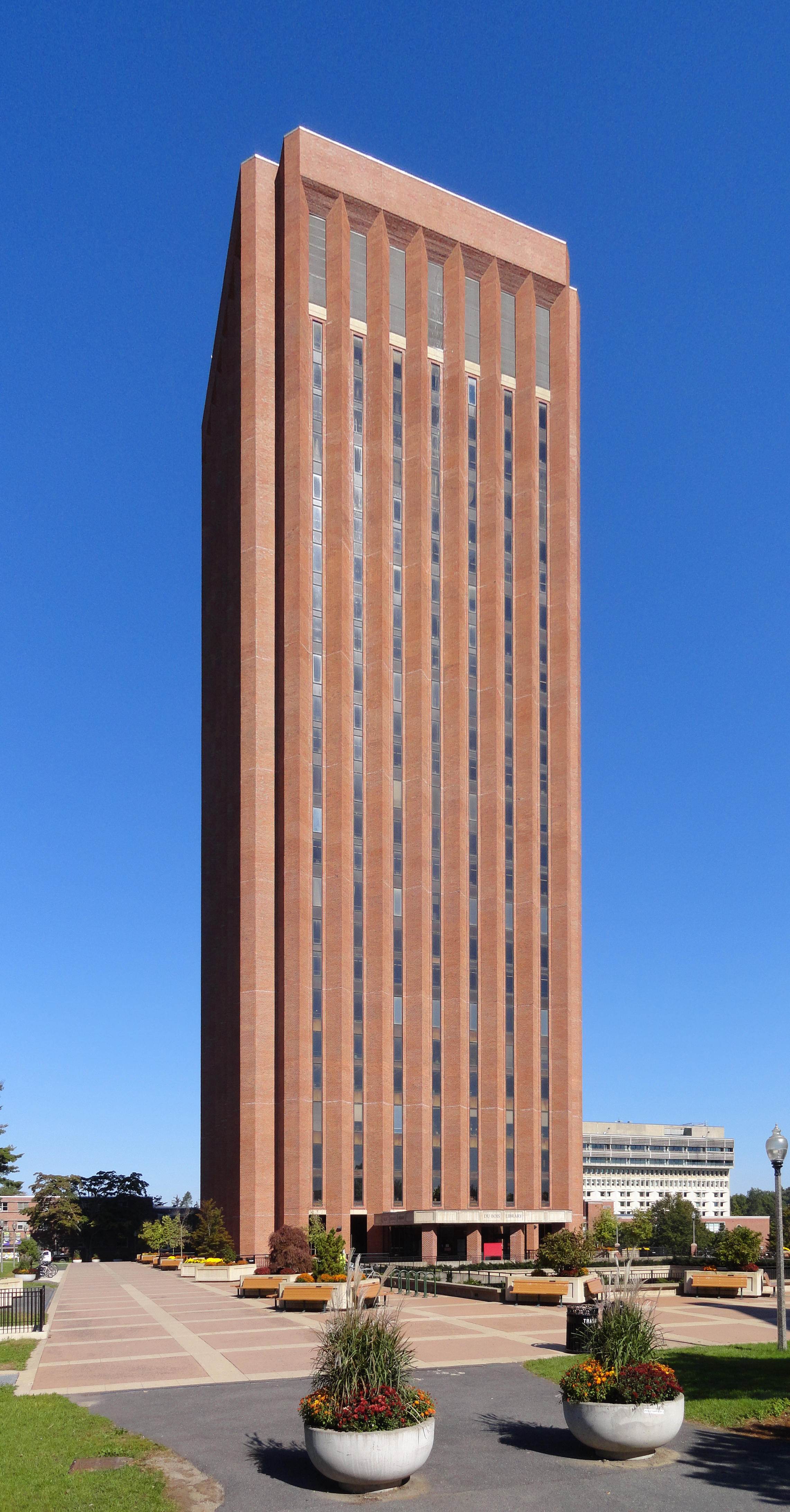 The W.E.B. DuBois Library — at the University of Massachusetts Amherst. Murray D. Lincoln Campus Center in right rear.